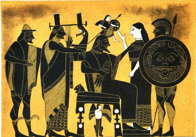 Birth of Athene